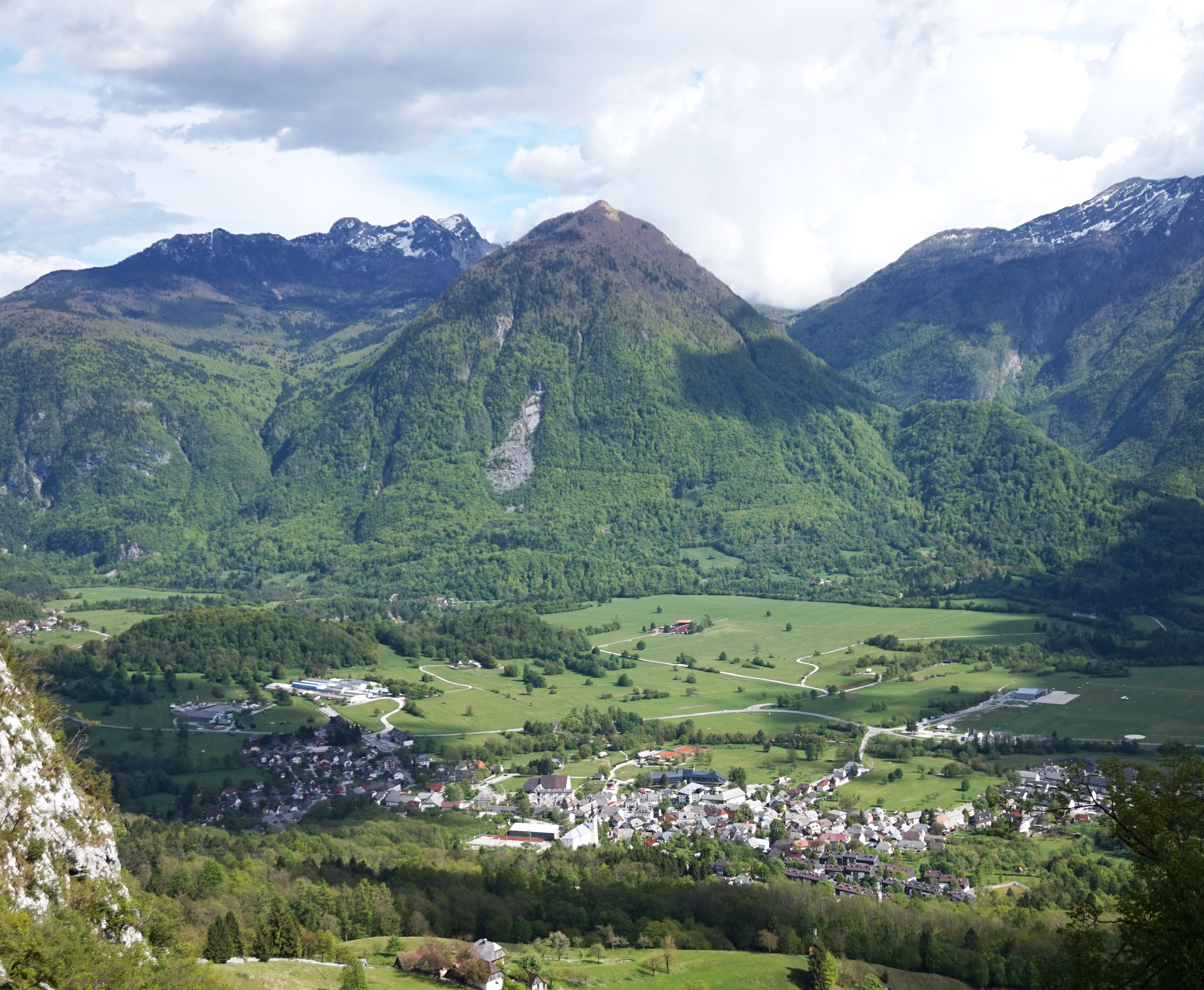 Bovec and mountains, Slovenia. View from the North. This photograph was taken with a Sony Alpha a5000.